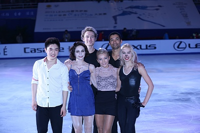 Gold Medalists at the exhibition gala of the Cup of China 2013.